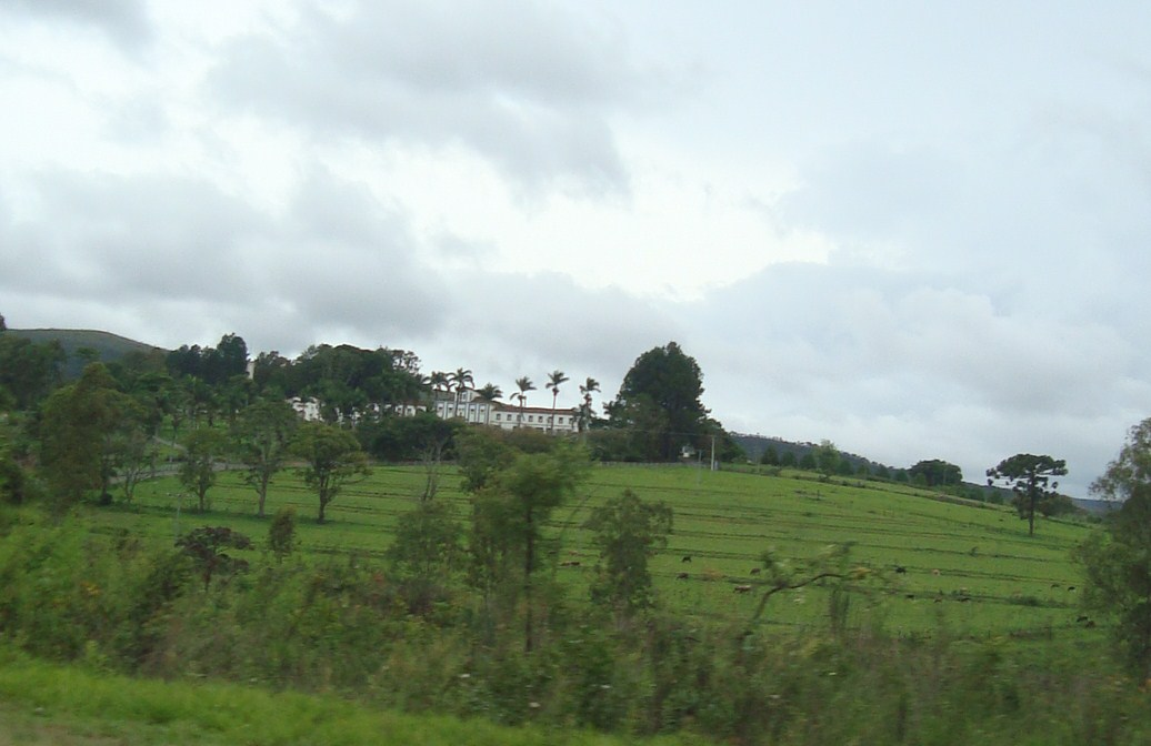 Former Dom Bosco School in Cachoeira do Campo, Ouro Preto, Minas Gerais, Brazil